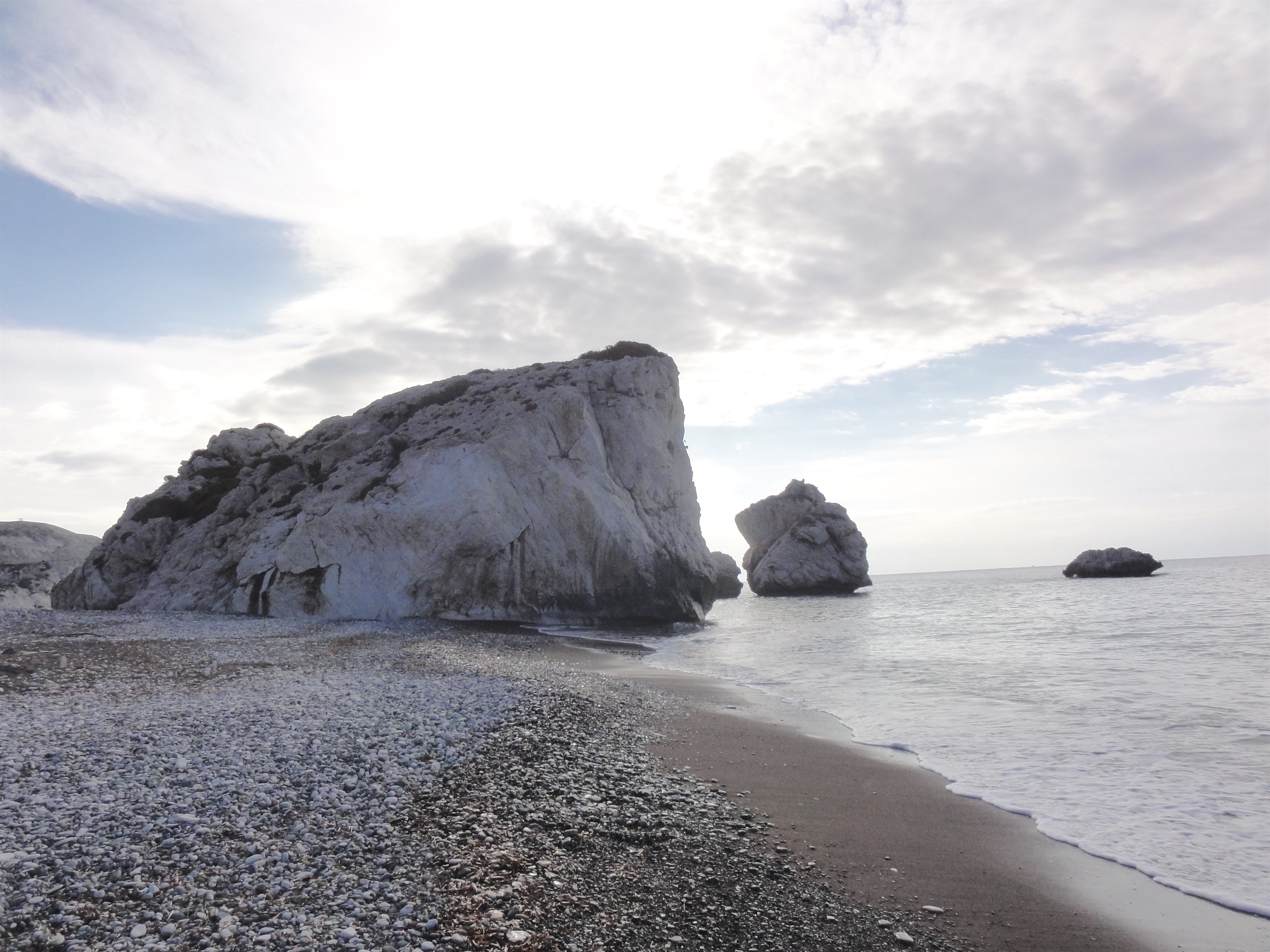 Aphrodite's Rock (Birthplace of Aphrodite) in Cyprus